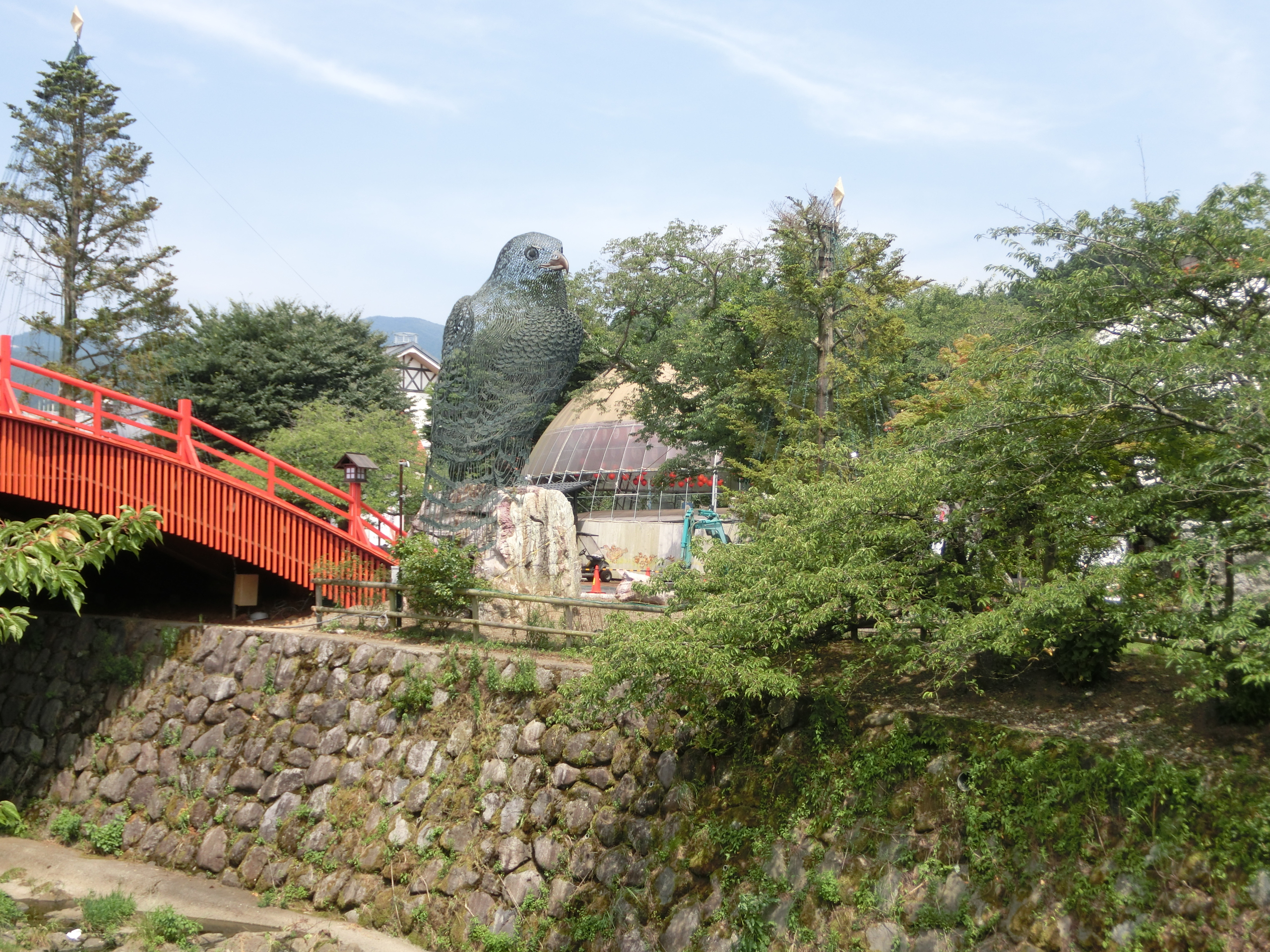 Gotemba Kogen Toki no Sumika